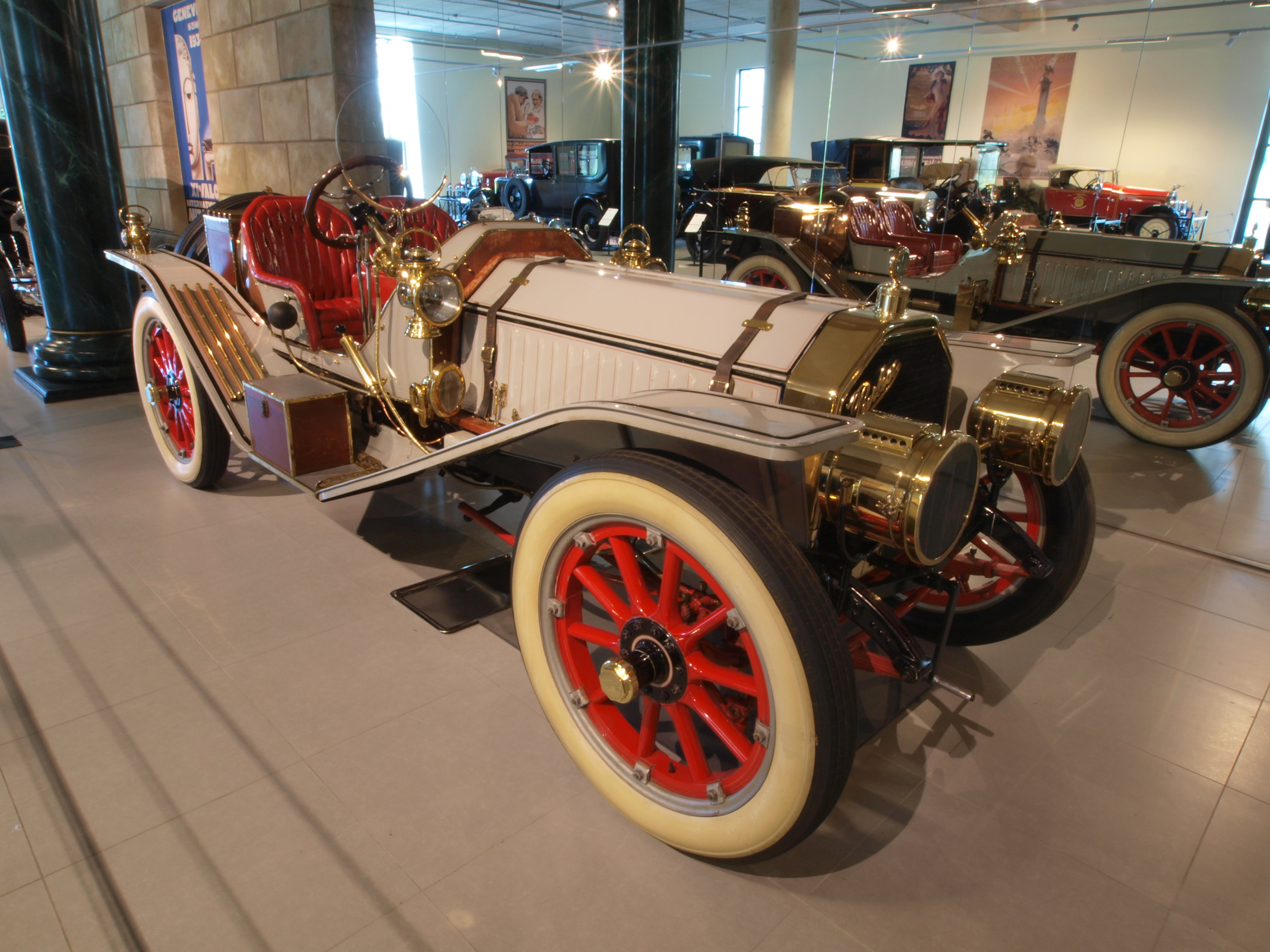 1911 Peerless Model 32 (45 hp). Photographed at the Louwman Museum, The Netherlands.